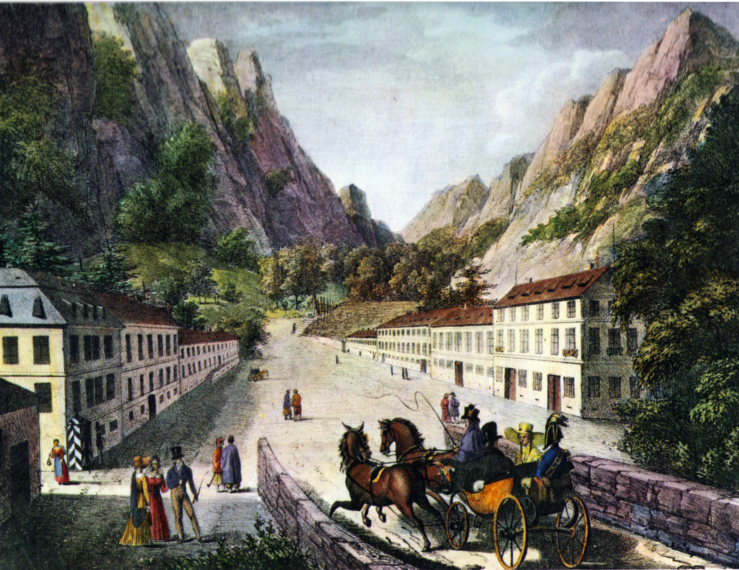 Baile Herculane, Romania, 1824. Drawing by Erminy, lithographing by Adolph Kunike